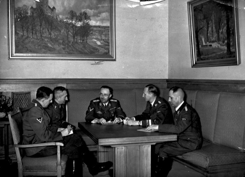 (rough translation): Himmler confers with Huber, Nebe, Heydrich, Müller. The National Leader SS Heinrich Himmler confers (in Munich) with the chief of the Security Police Reinhard Heydrich and his staff regarding the progress of the investigation into the bombing attack in the Bürgerbräukeller in Munich on November 8, 1939, and lays the basis for additional work on the case. From left to right: SS-Sr. Storm Unit Leader (Franz Josef) Huber, SS-Sr. Leader (Arthur) Nebe, National Leader-SS Heinrich Himmler, SS-Group Leader Reinhard Heydrich, SS-Sr. Leader (Heinrich) Müller. Release date: 27 November 1939.